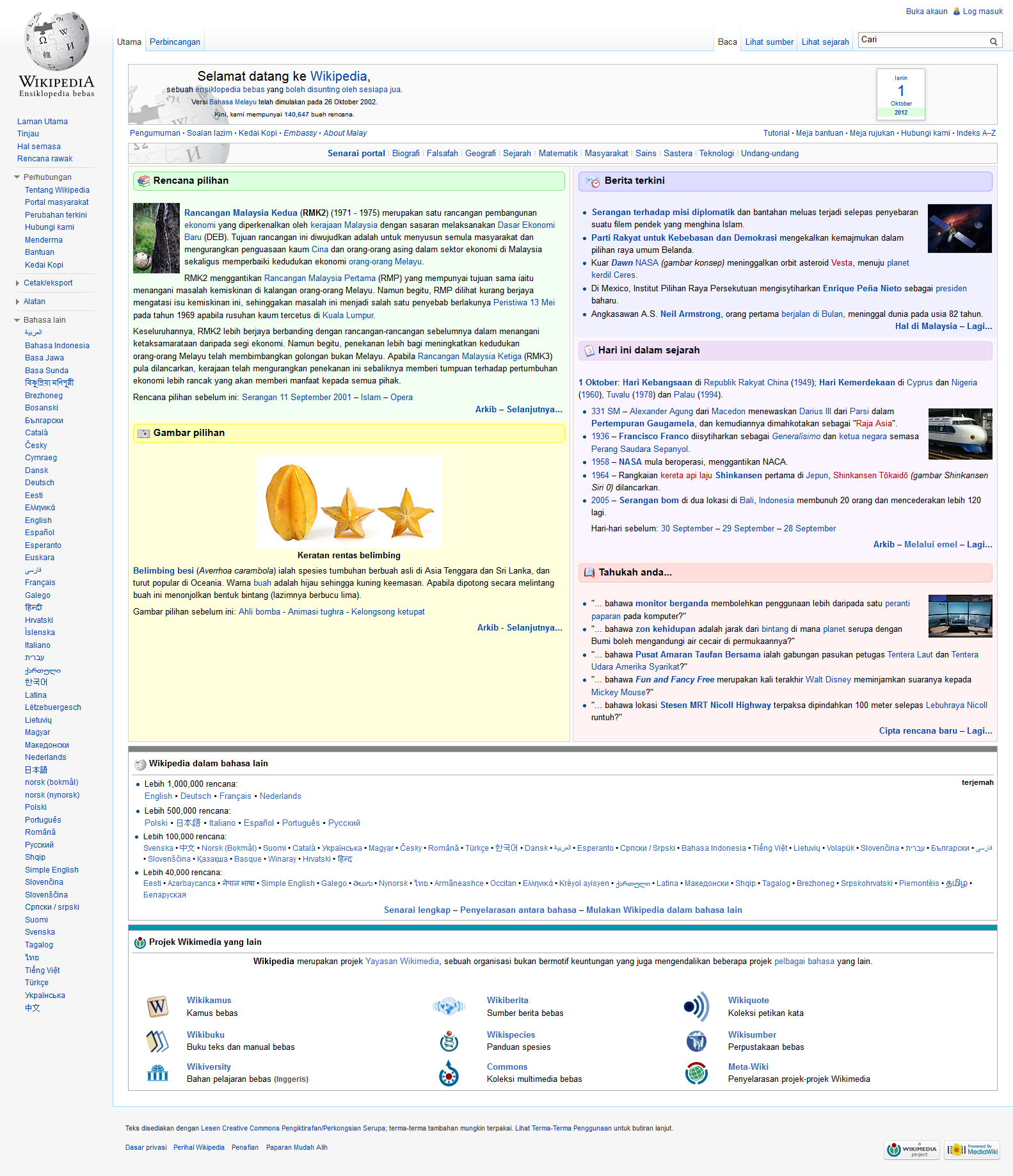 Screenshot of the Malay Wikipedia's main page, taken on October 1st, 2012 with the FireShot add-on for Firefox